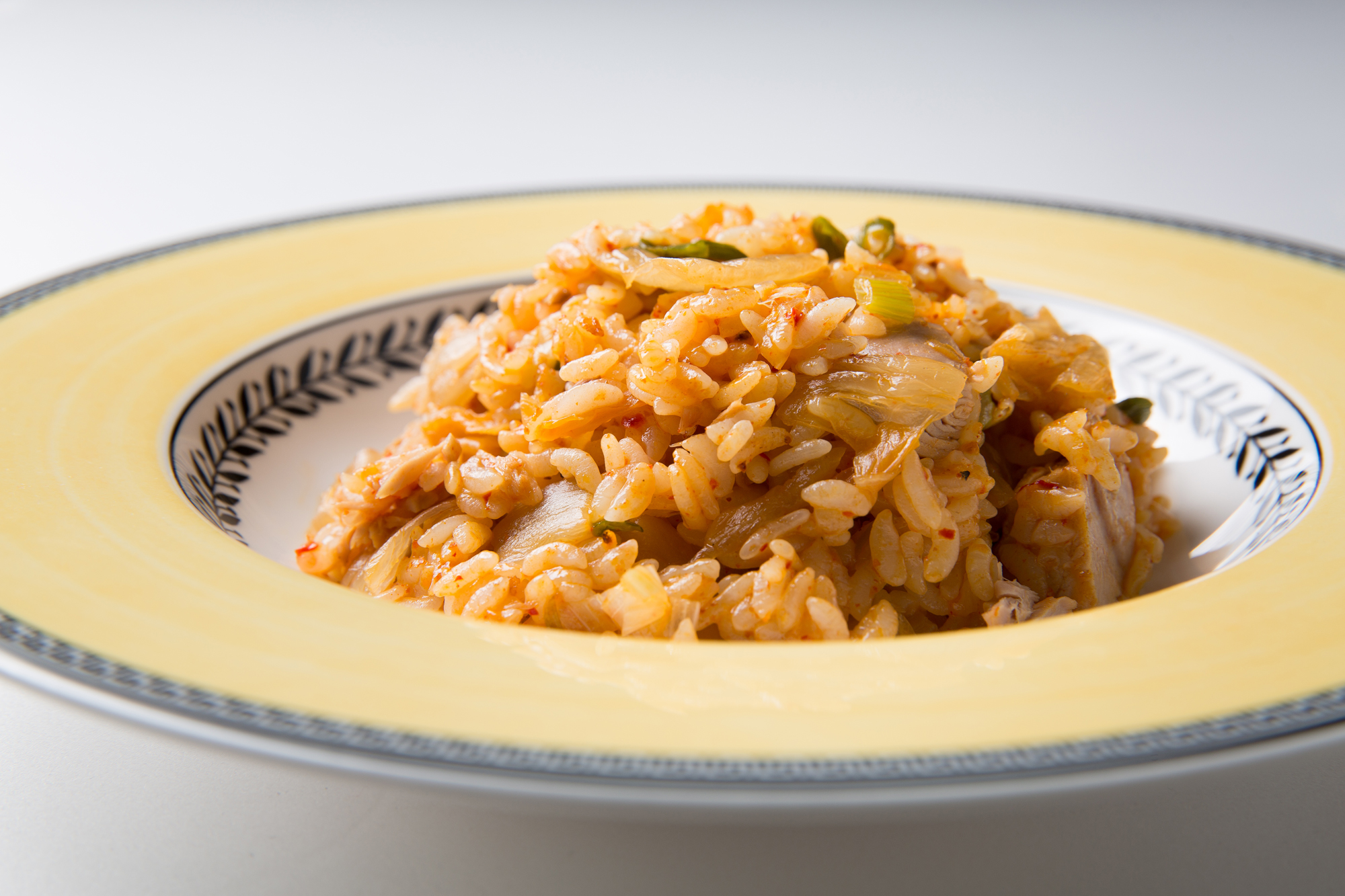 Kimchi-bokkeum-bap (kimchi fried rice)